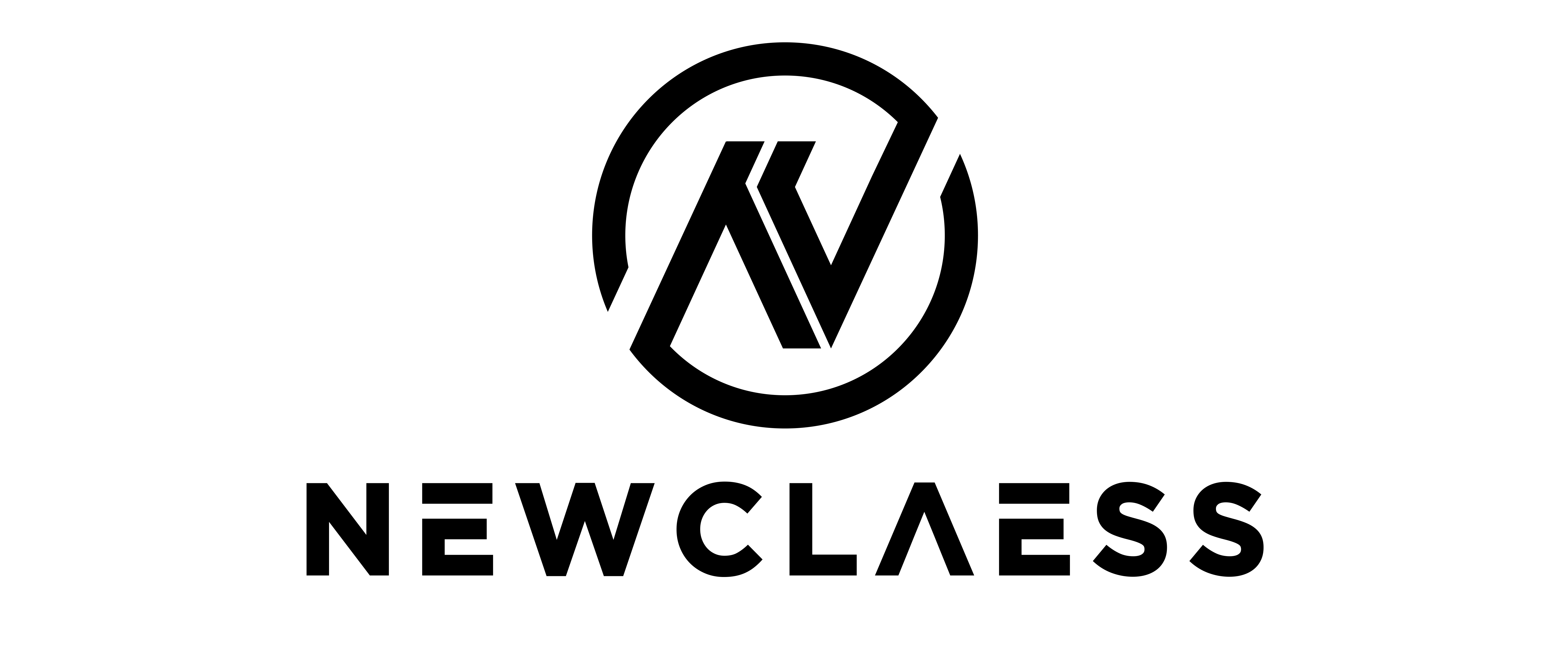 New Logo of the DJ Duo Newclaess